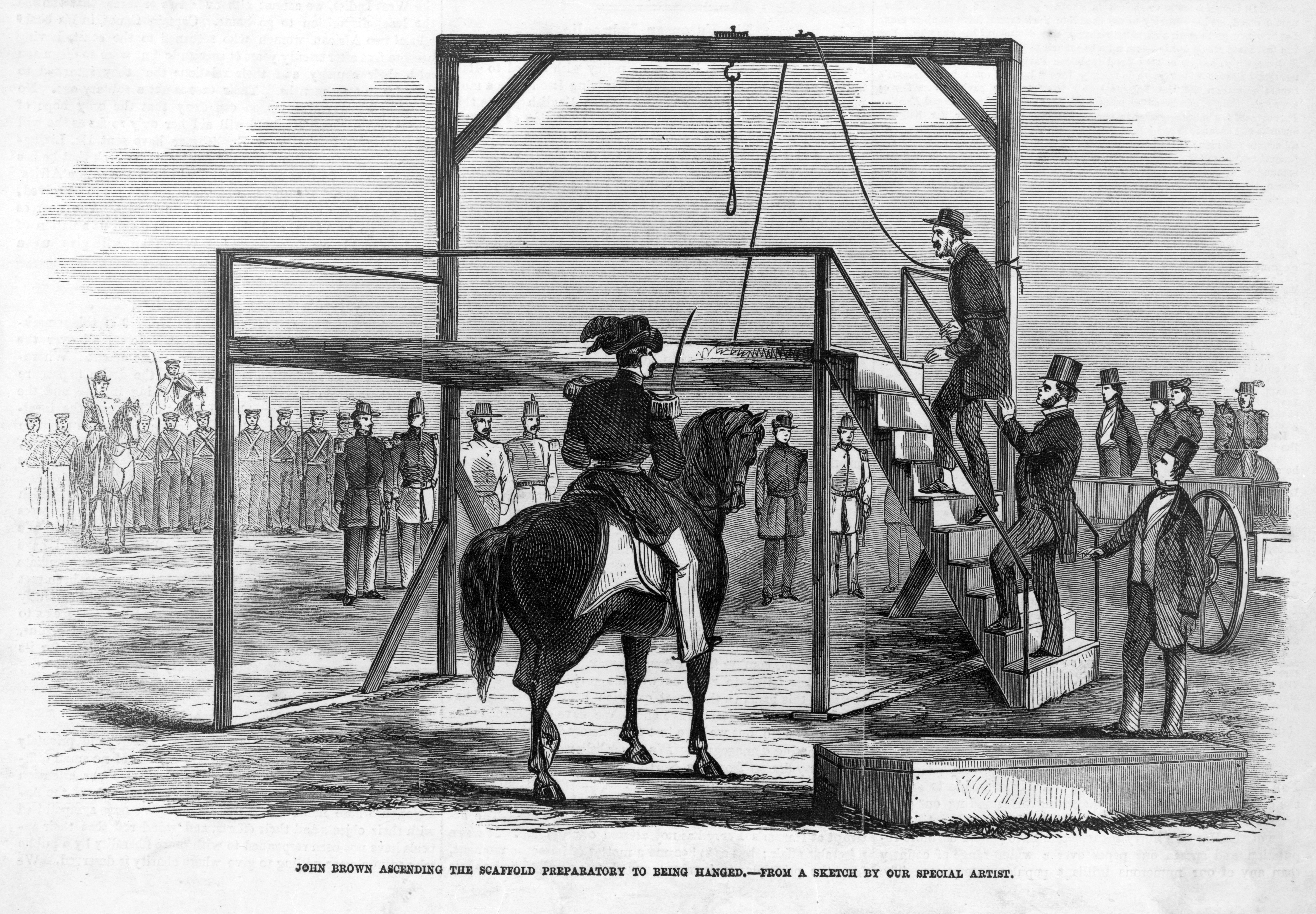 "John Brown ascending the scaffold preparatory to being hanged / from a sketch by our special artist." Illus. in: Frank Leslie's illustrated newspaper, v. 9, no. 211 (1859 Dec. 17), p. [33].